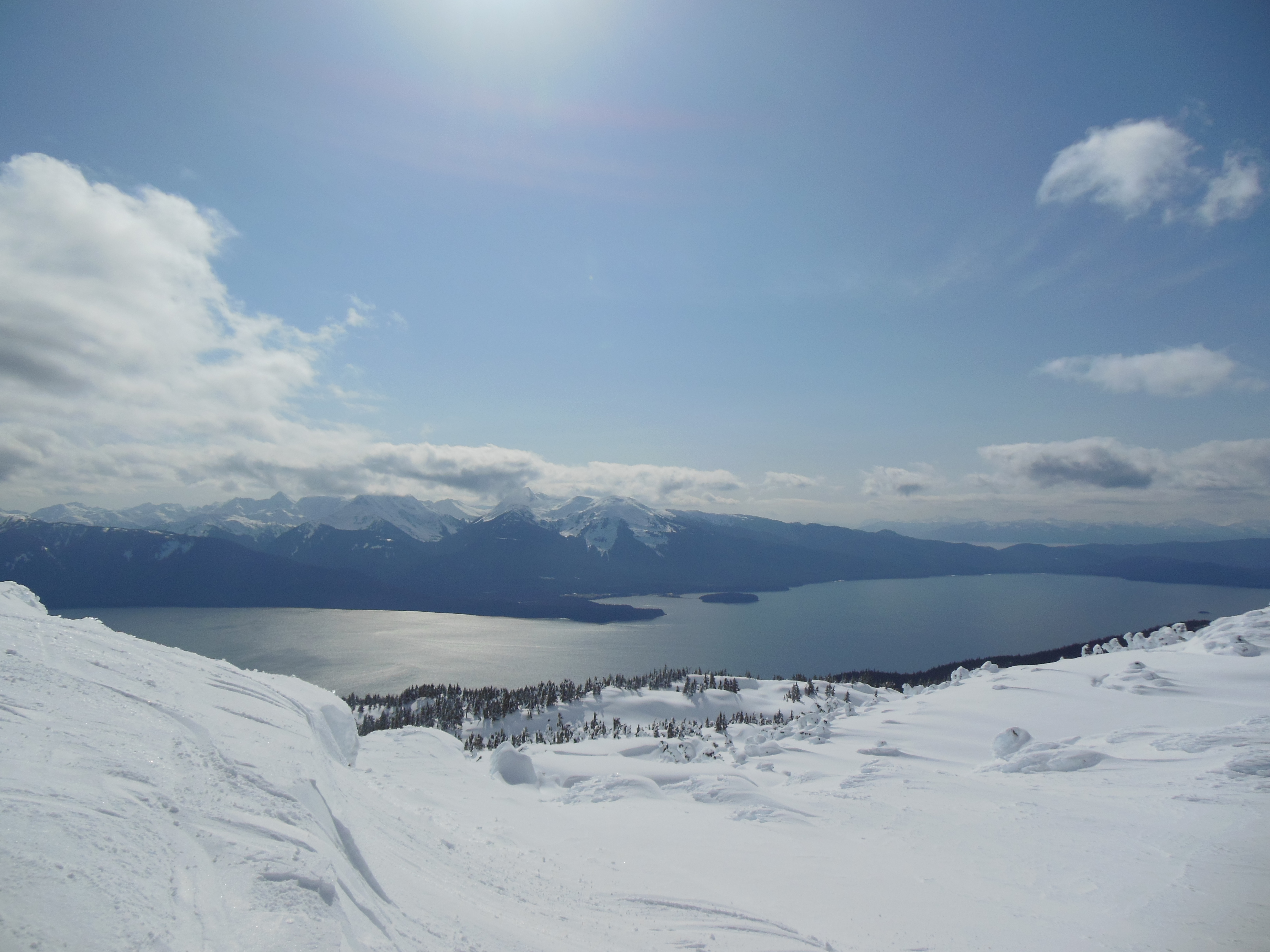 Admiralty Island across the Stephens Passage from a high ridge at Eaglecrest Ski Area on Douglas Island, Alaska, United States